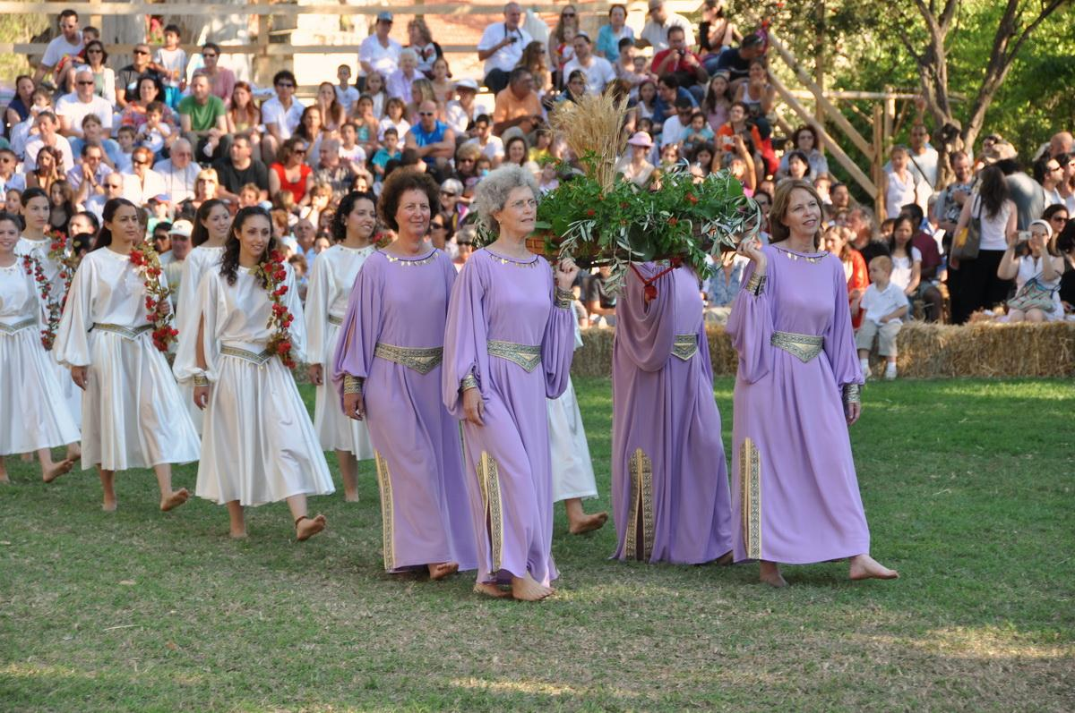 the Jewish holiday Shavuot at Kibbutz Gan-Shmuel